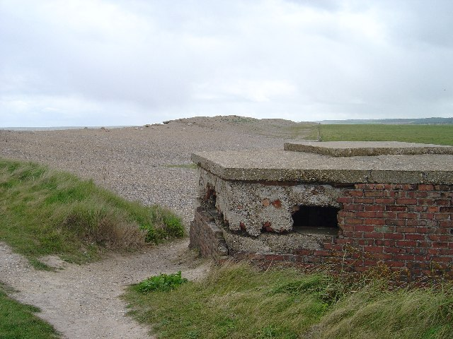 WW2 Pillbox at Cley-next-the Sea. This Pillbox is now behind the shingle bank which is part of the flood defences for the area.